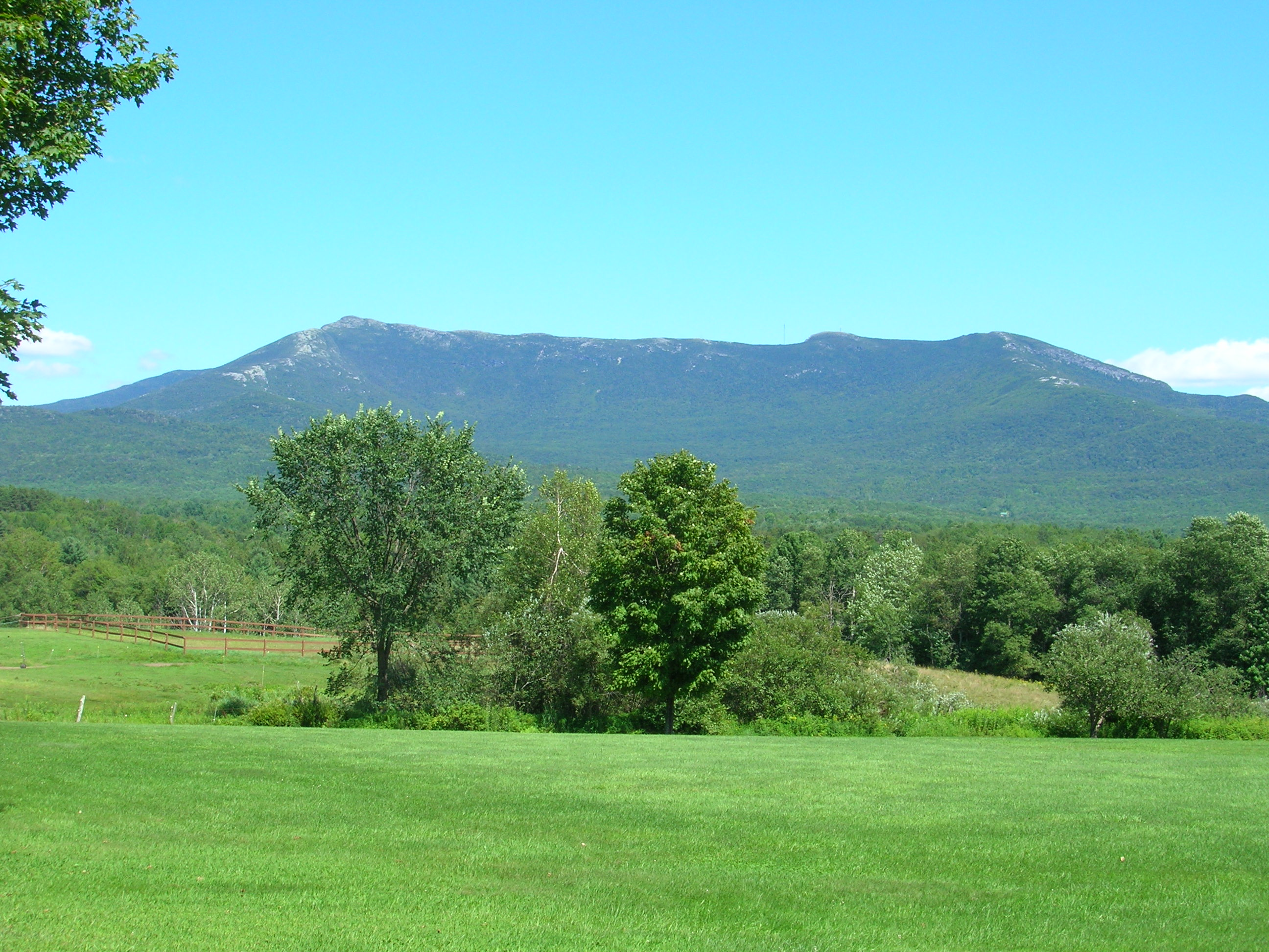 Mt. Mansfield in Underhill, Vermont ~ 27 Jul 2006